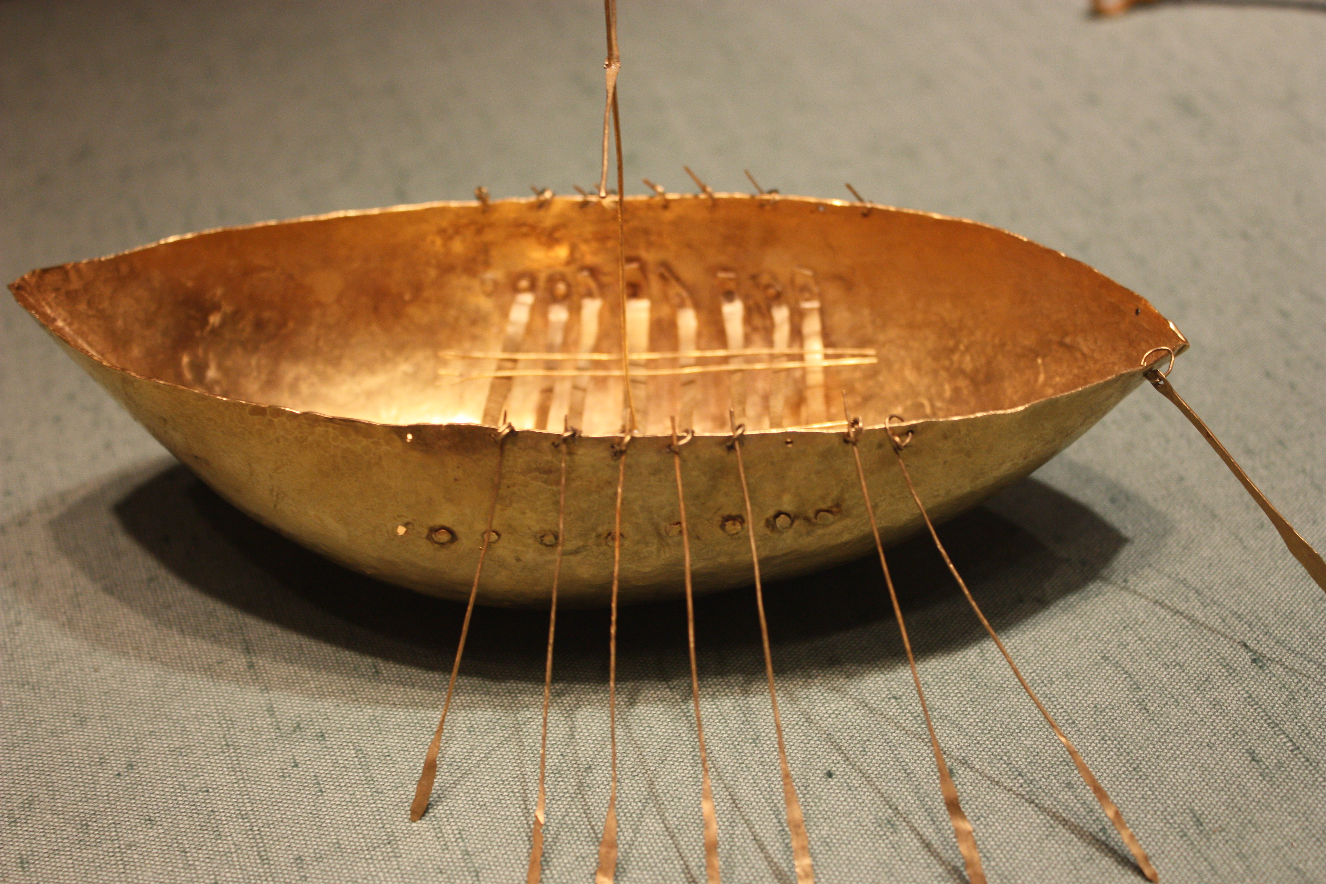 Broighter Gold, National Museum of Ireland, Kildare Street, Dublin, Republic of Ireland, October 2010